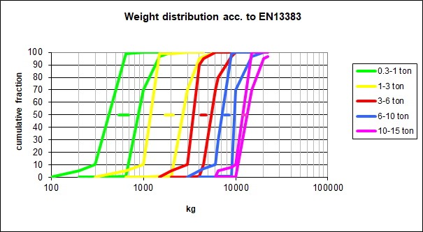 Rock grading according to the requirements of EN13383 for Heavy Gradings (HMA and HMB)